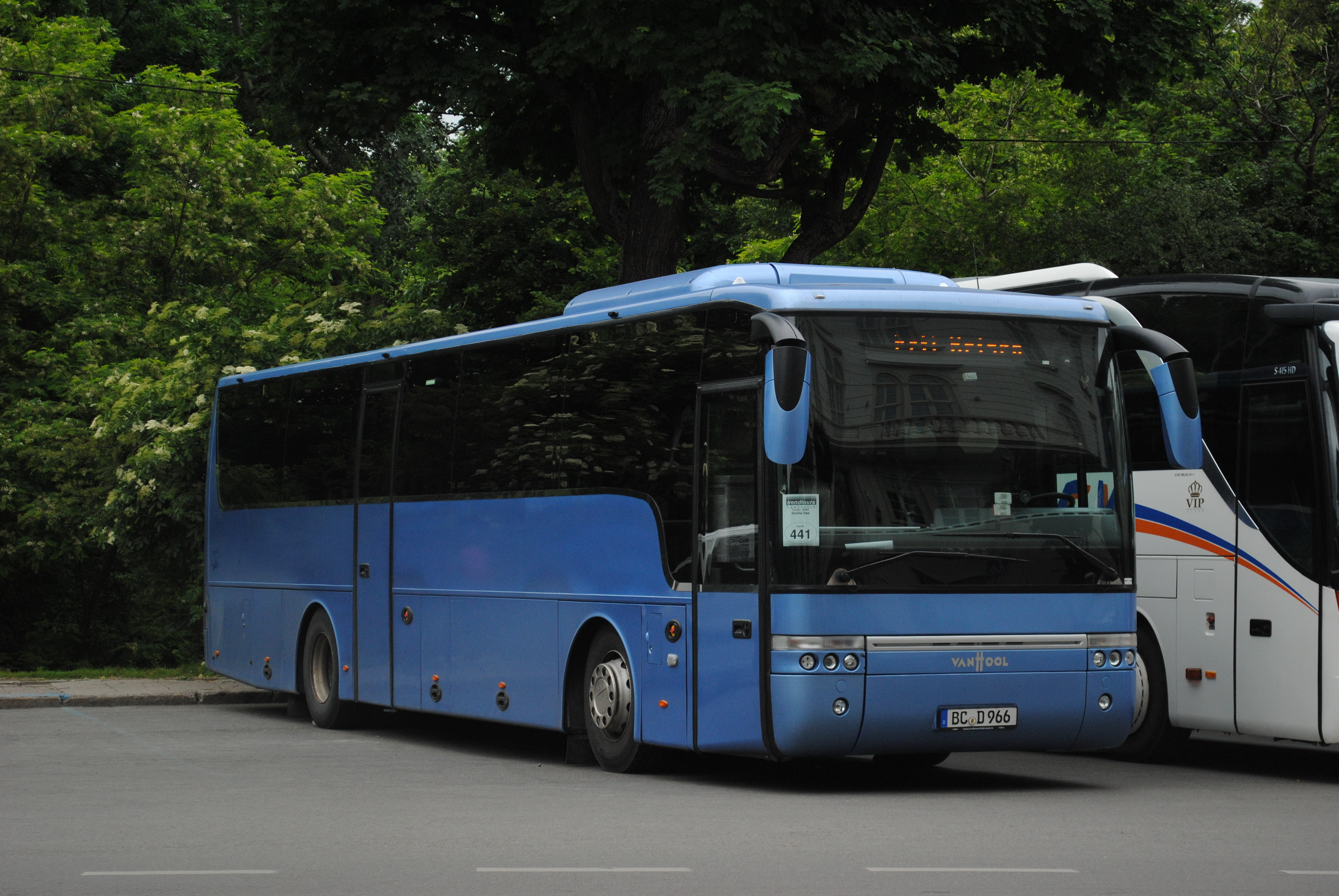 A Van Hool T 915 Acron bus from Germany. Ertl Reisen operator.